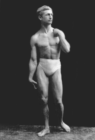 Napoleon Sarony (1821-1896), Portrait of strongman Bernarr Macfadden as David.